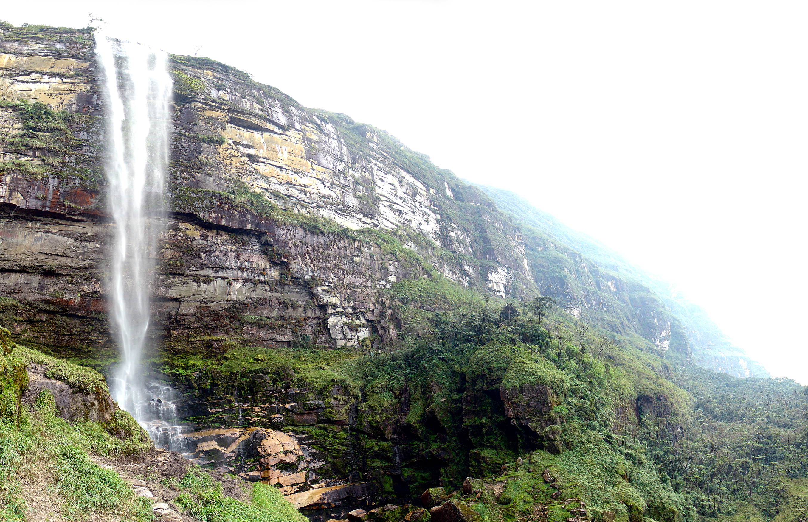 Superior fall of Gocta waterfalls, Peru